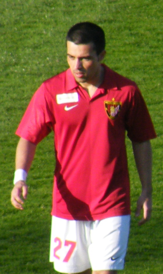 Guilherme Rodrigues Moreira Brazilian football player